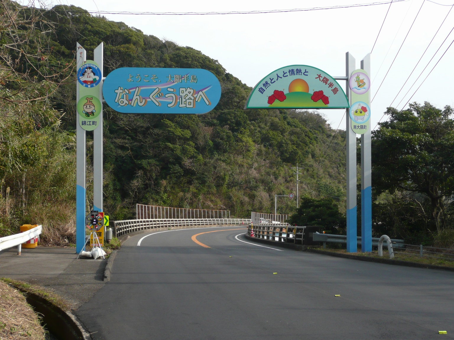 National Route 269 (Kinko Town, Kagoshima, Japan)